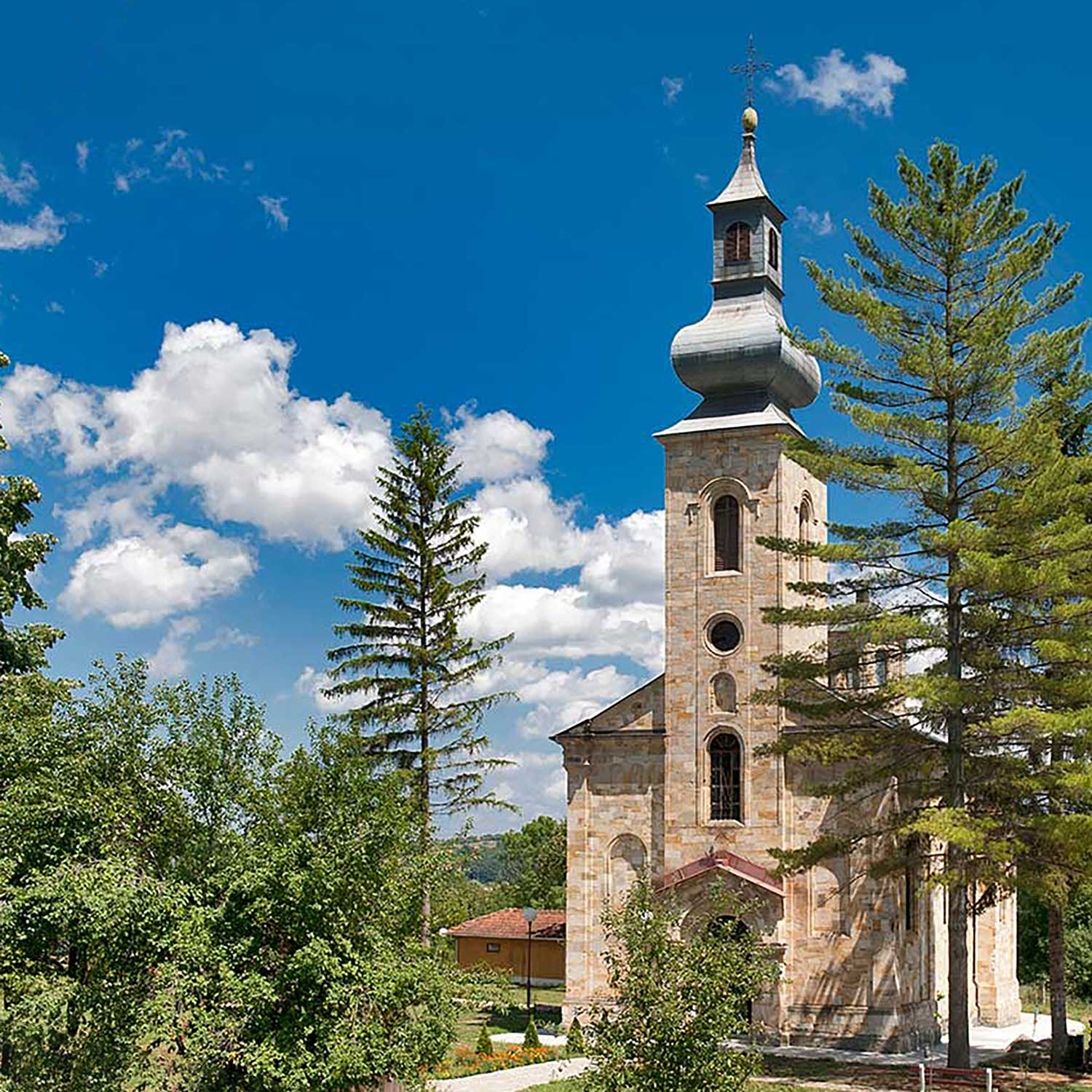 Church of Saint Peter and Paul in Grošnica, Kragujevac